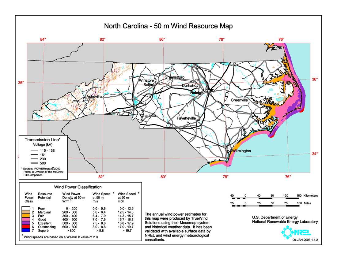 Average annual wind power distribution for North Carolina, 50m height above ground, also showing location of existing electrical transmission lines